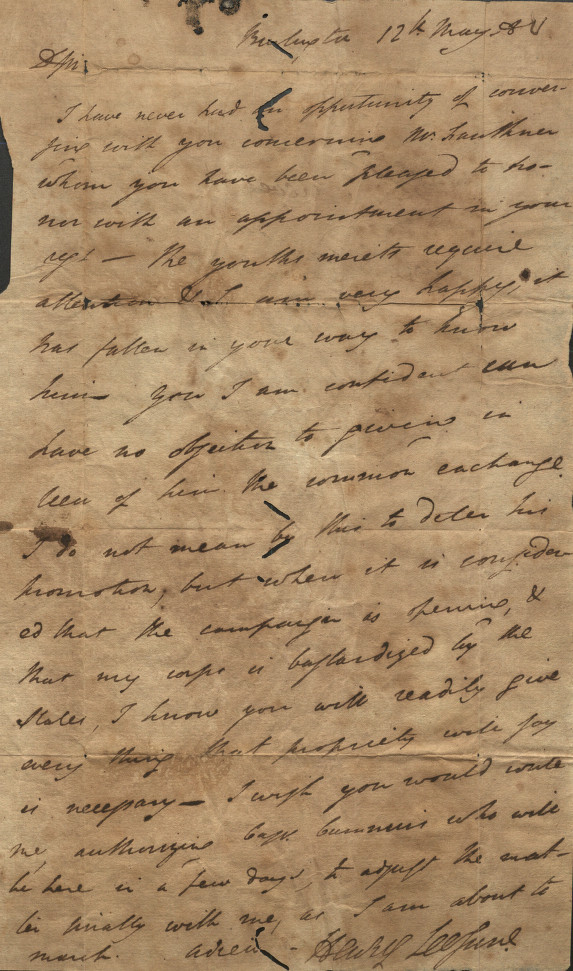 Correspondence from General Henry "Light Horse Harry" Lee to Shreve on May 12, 1780. Sent from Burlingt